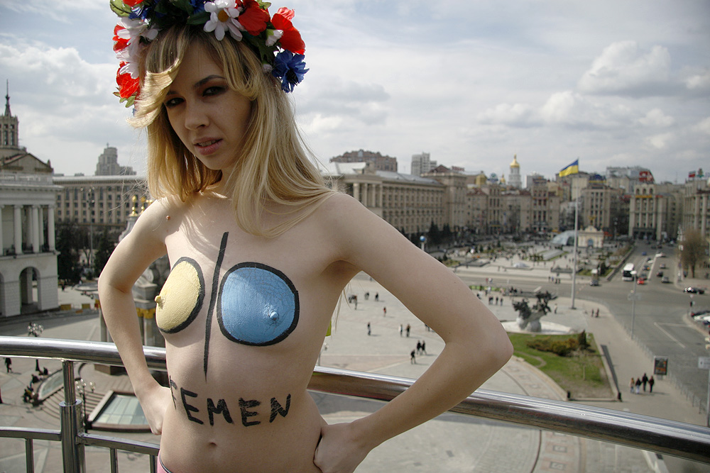 "11 April 2010 Sasha Shevchenko striking a pose at Maydan to present new FEMEN logo and style. 2 years of FEMEN: logo form famous Russian Designer Artemiy Lebedev plus world fame!"